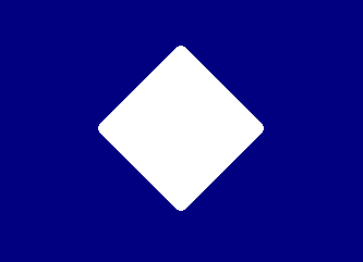 XXV Corps, Army of the James, Dept of Texas, 2nd Division Badge